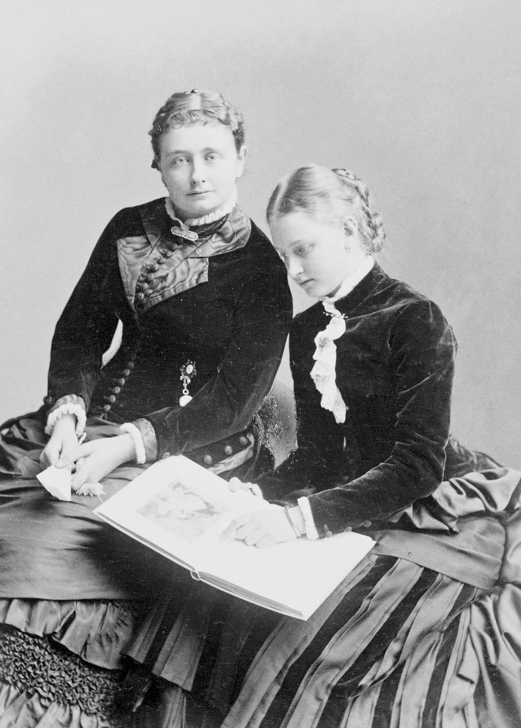 Photograph of Princess Mathilde (1863–1933) (left) and Princess Maria (1867–1944) of Saxony, daughters of George, King of Saxony. Both are seated, reading a book with illustrations; Mathilde is looking at the viewer.